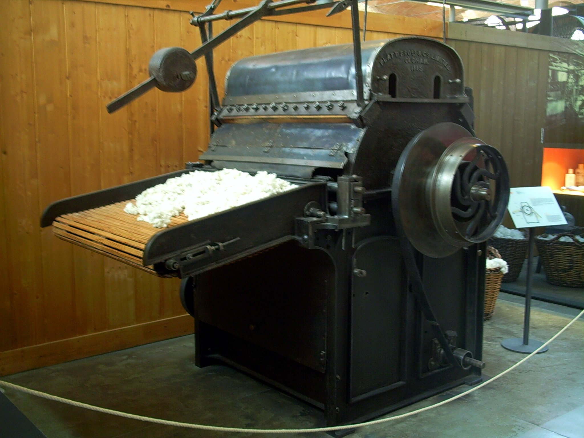 Batuar from 1885, at the mNATECT, Terrassa, (Catalunya).